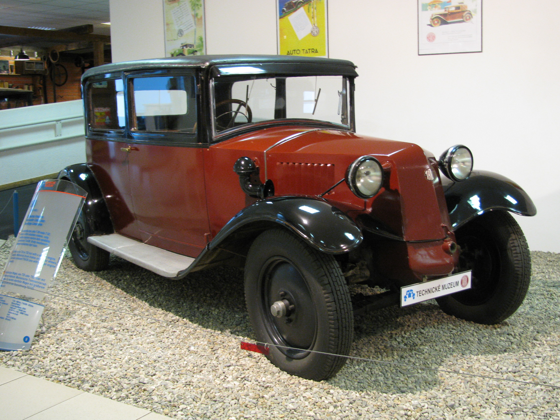 Tatra 54 (T54) in Tatra Technical Museum, Kopřivnice, Czech Republic.